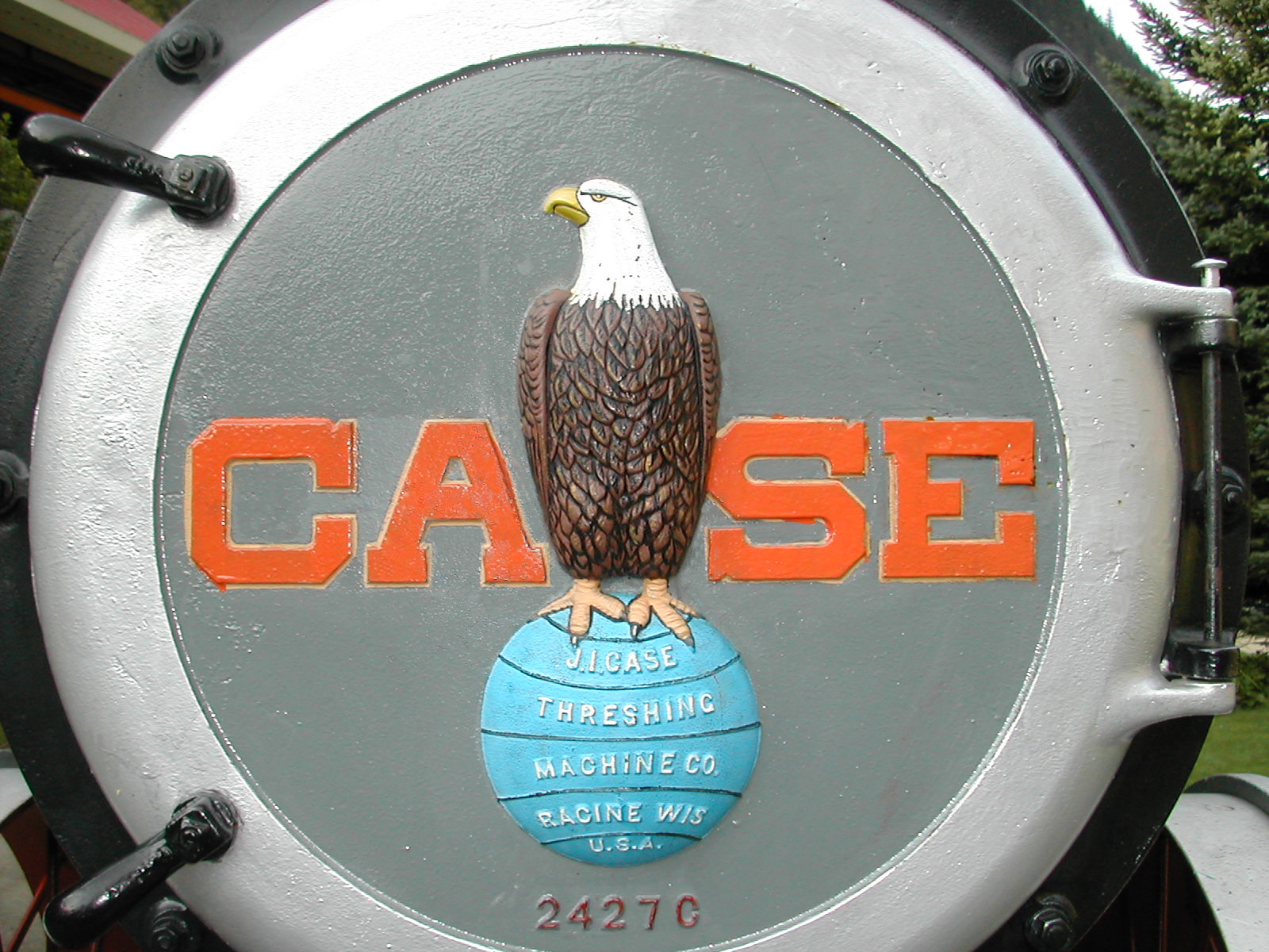 Emblem of the J.I. Case Company on the door of the boiler of a Case steam engine.